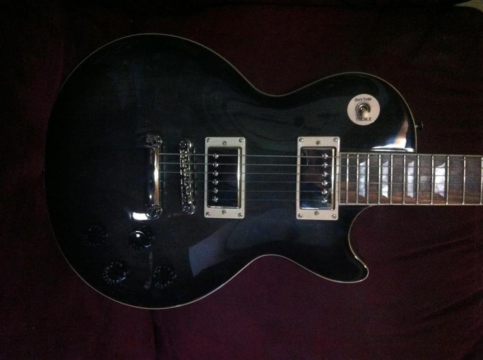 Epiphone Les Paul Tribute, 2010 Model, in Trans Black